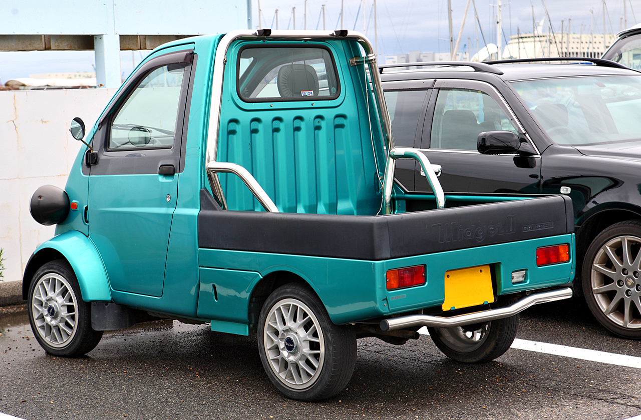 Daihatsu Midget II